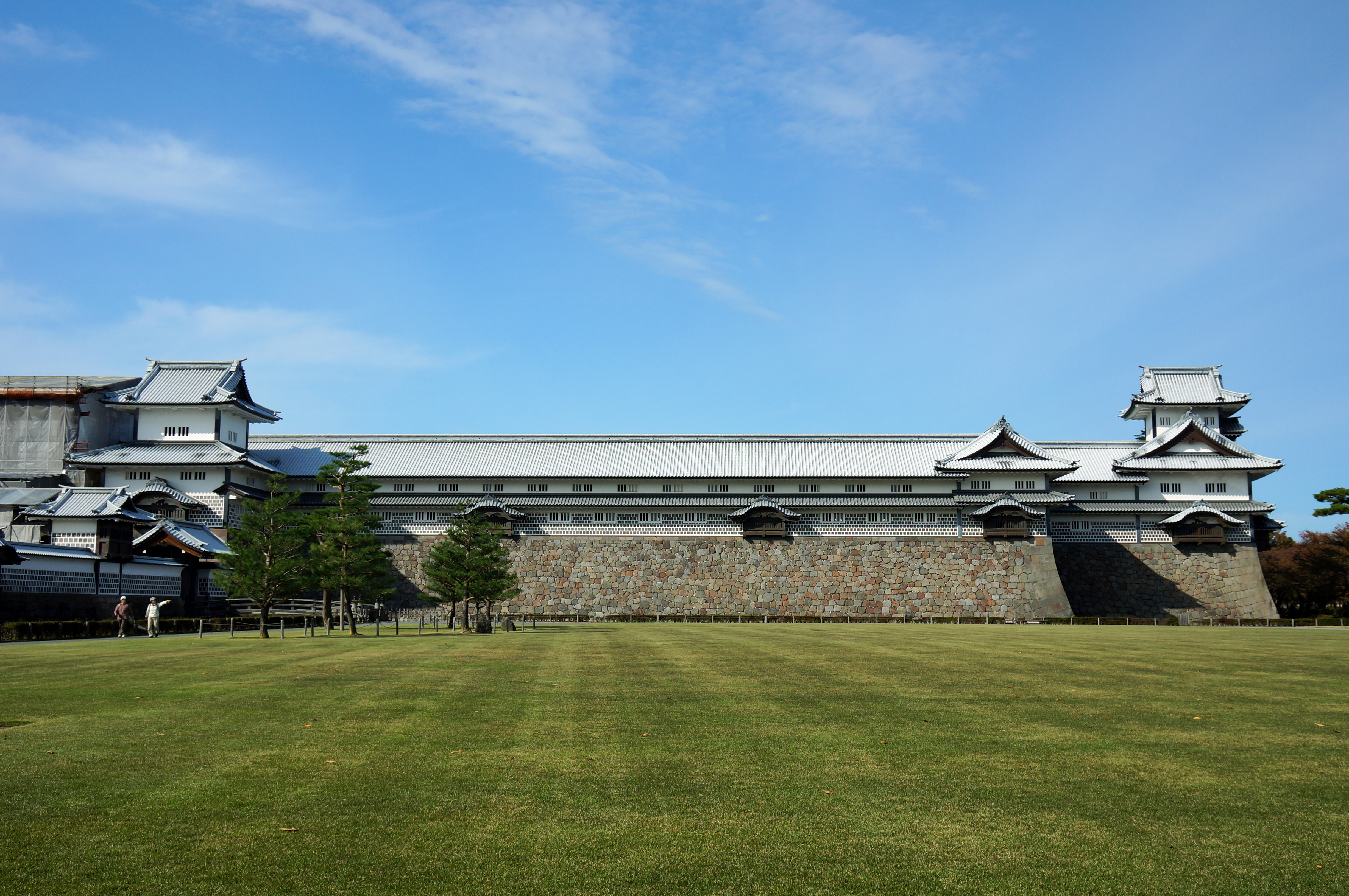 At Kanazawa Castle in Kanazawa, Ishikawa prefecture, Japan.